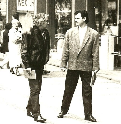 Momo Kapor and Dejan Stojanović during the walk in Belgrade, just before the Stojanović’s interview with Kapor in the spring of 1990.